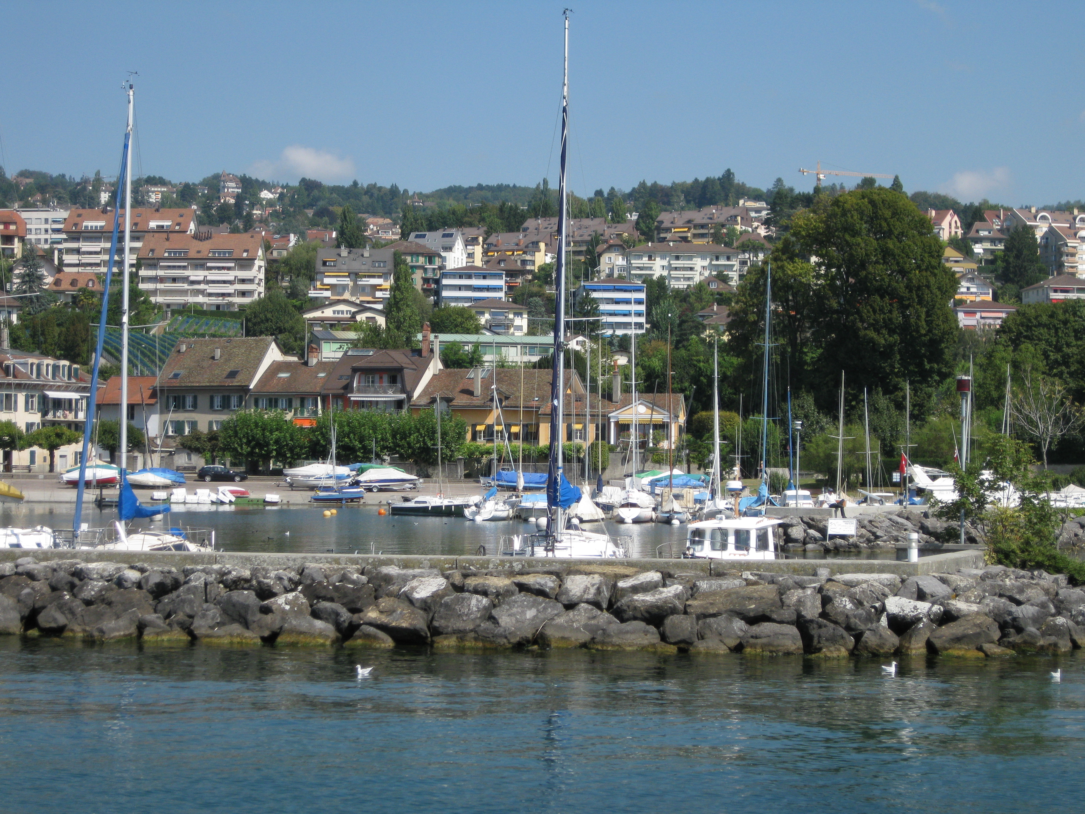 Around the lake of Geneva, Switzerland / France. Location see geotag.